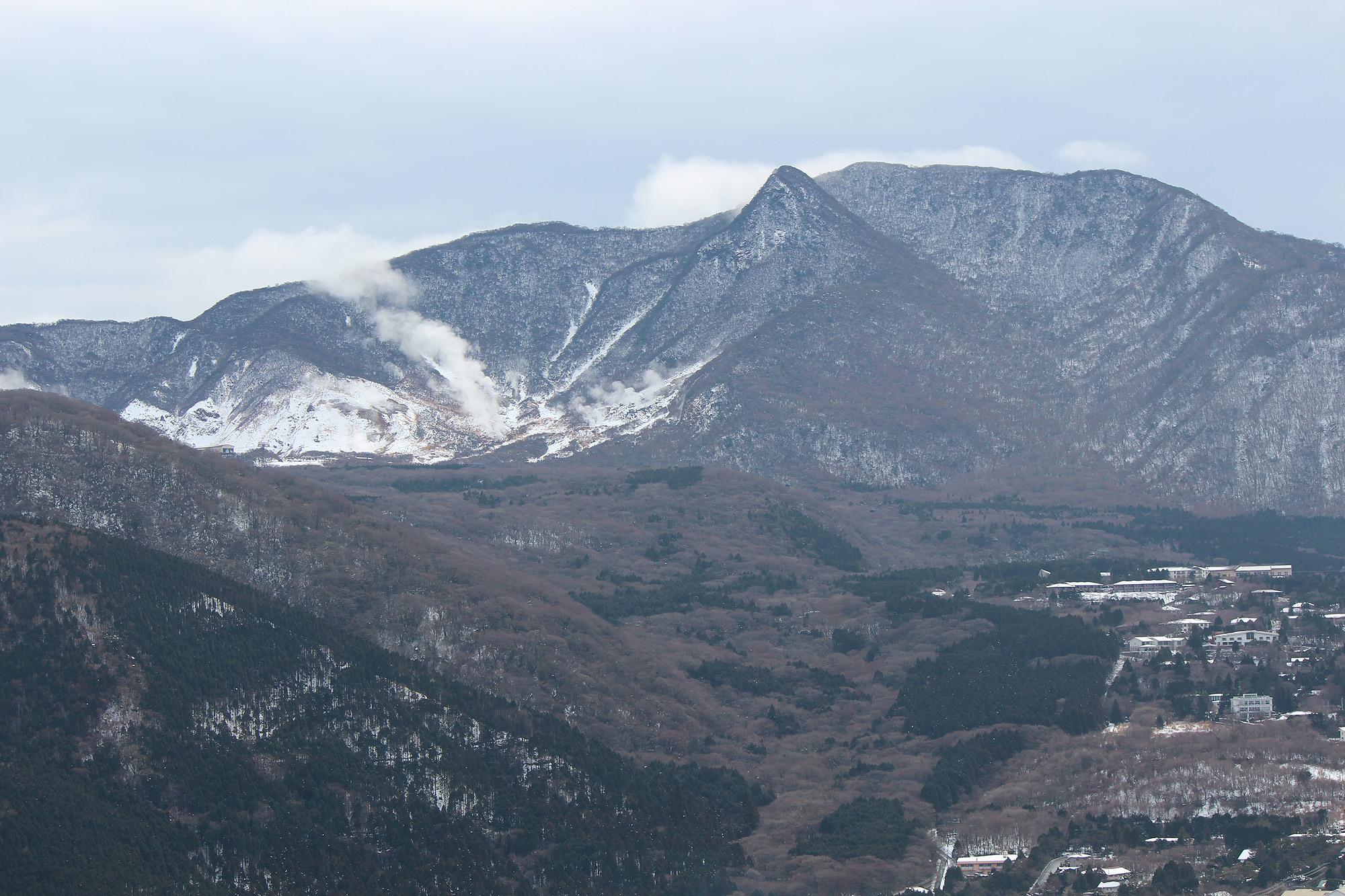 The northeastern side of central cones of Hakone Volcano in Hakone, Kanagawa Prefecture, Japan.